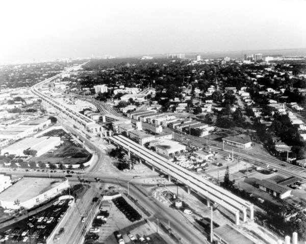 Metrorail guideway under construction in Miami, Florida.